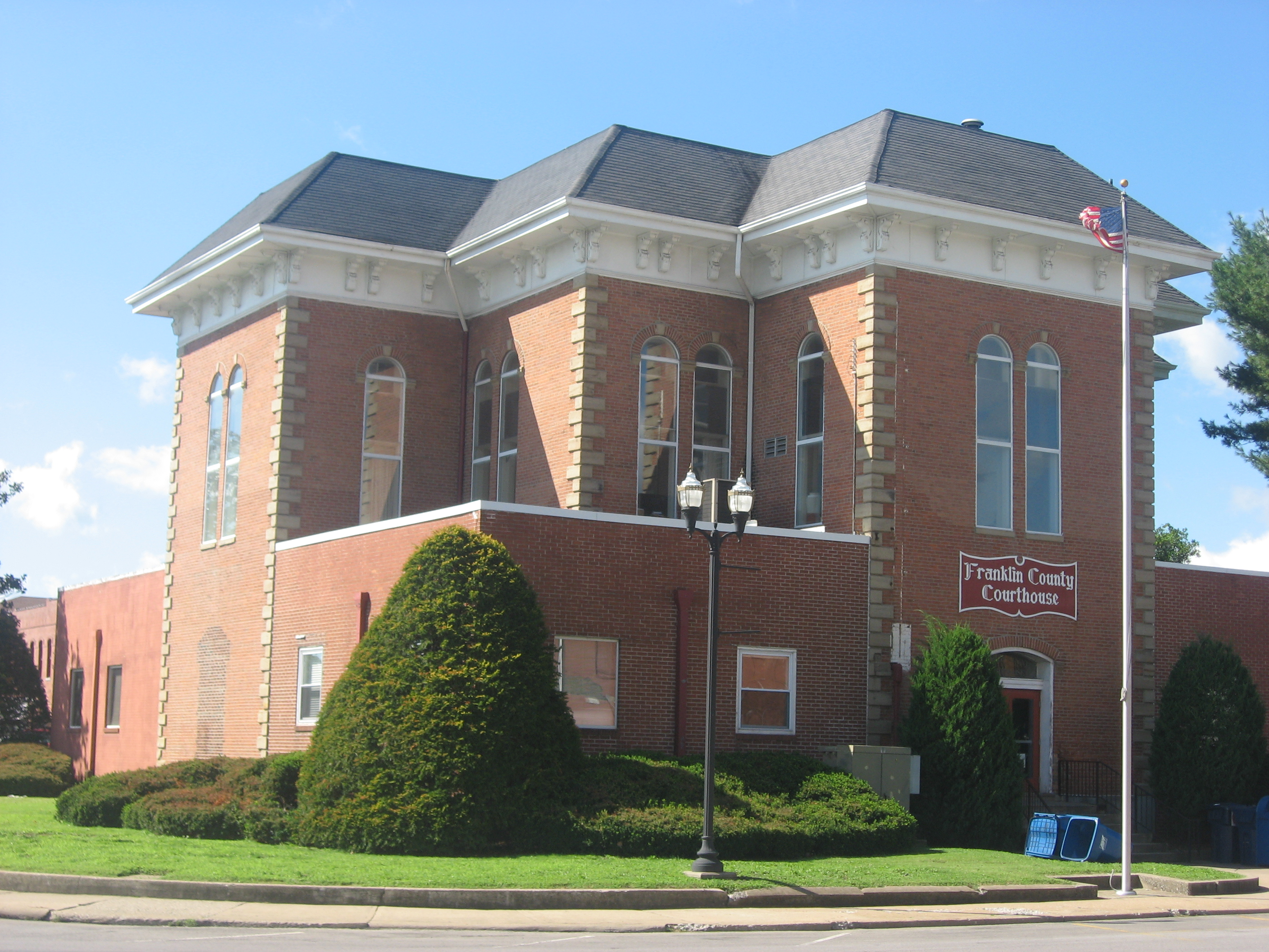 Northern and eastern sides of the Franklin County Courthouse, located at the center of Courthouse Square (Illinois Routes 14/37) in downtown Benton, Illinois, United States. It was built in 1875.